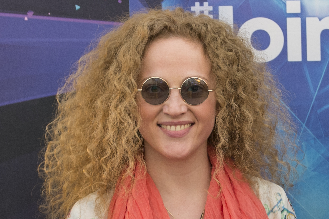 Mariko Ebralidze from The Shin and Mariko Ebralidze at a Meet & Greet during the Eurovision Song Contest 2014 Copenhagen. (Help translate this text)